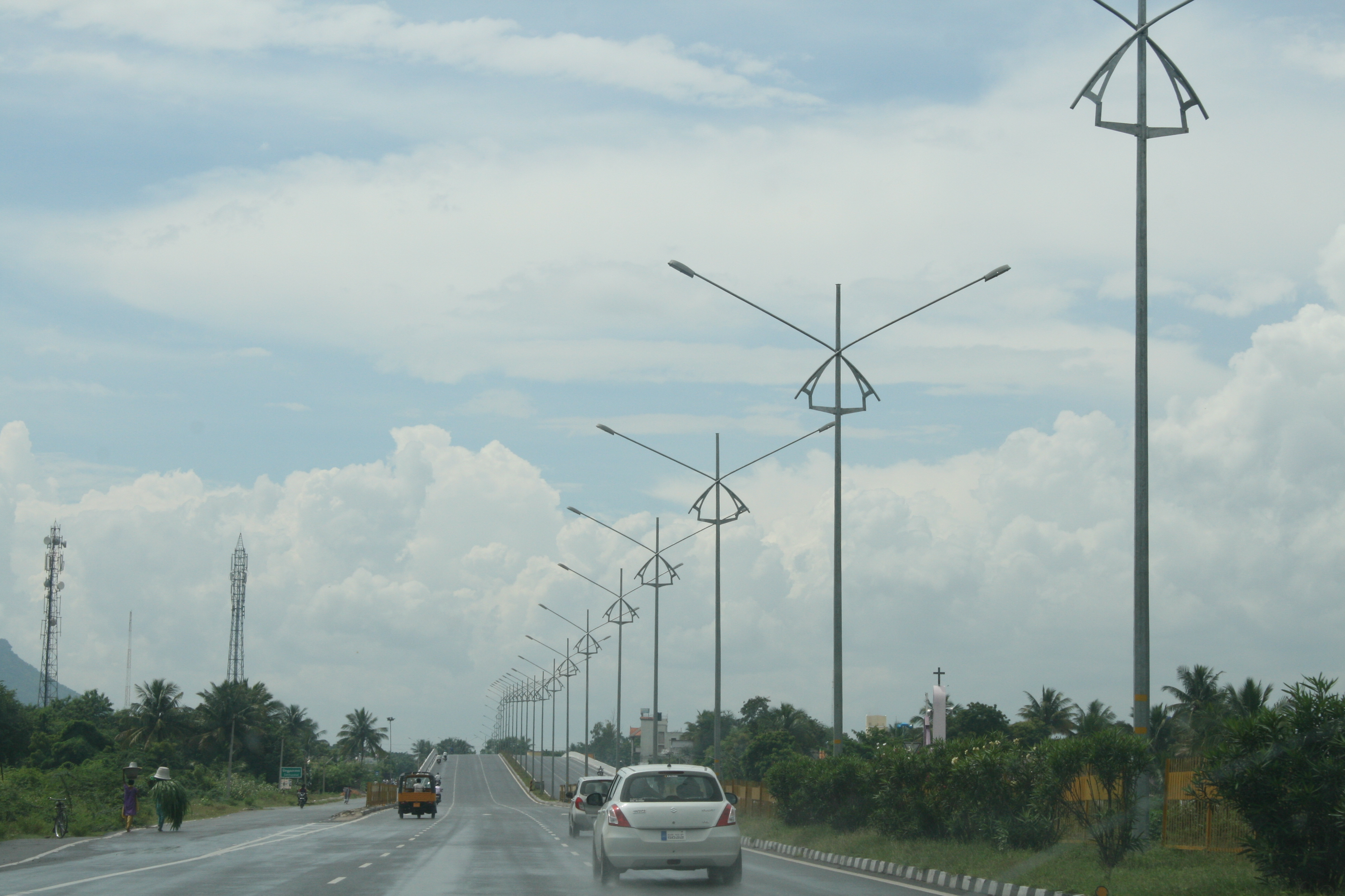 NationalHighway 46 near Vellore, TamilNadu, India